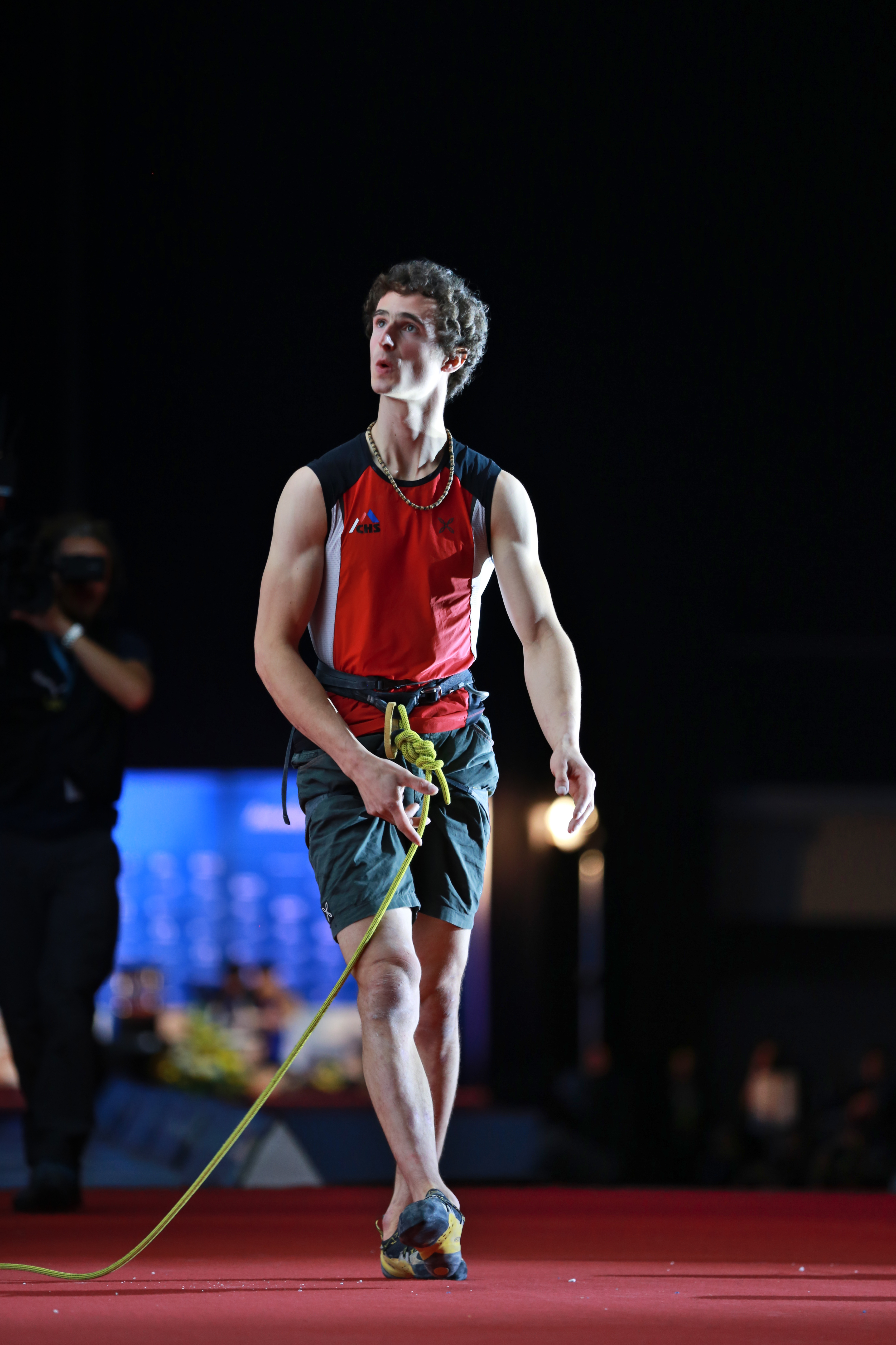 IFSC Climbing World Championships Innsbruck 2018 Final MAN lead 121 ONDRA Adam CZE